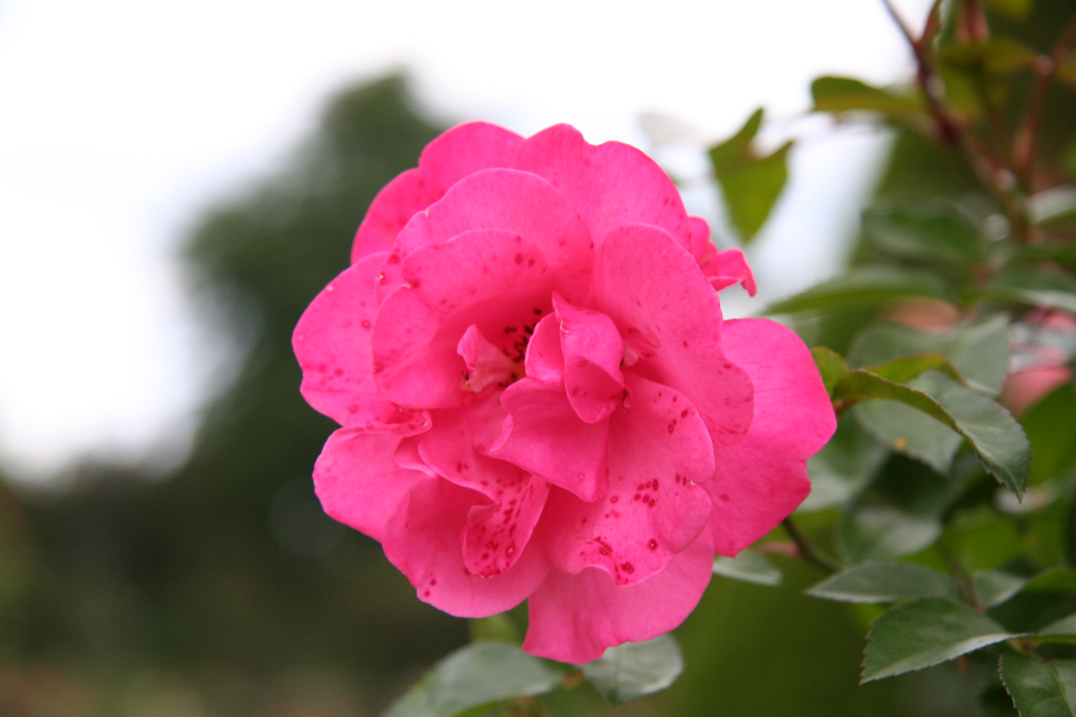 Les Amoureux de Peynet rose - Bagatelle Rose Garden (Paris, France).